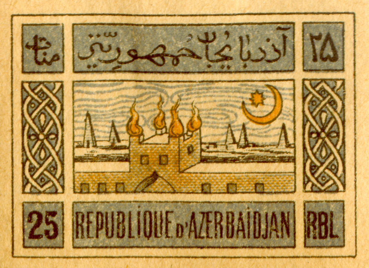 Image of the Fire Temple on an Azerbaijan postage stamp issued in 1919, Scott Cat. no. 9.